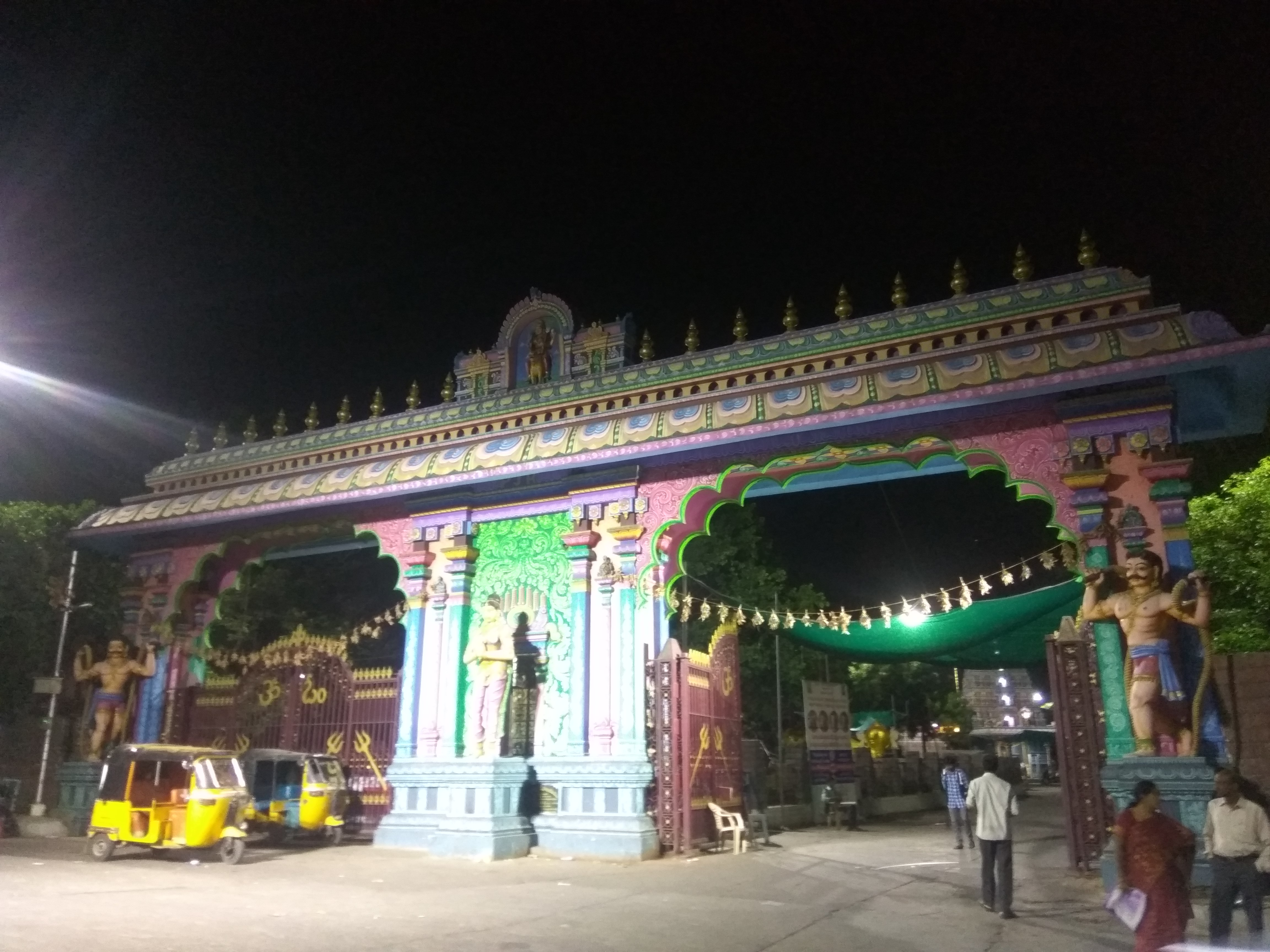 Entrance of peddamma temple